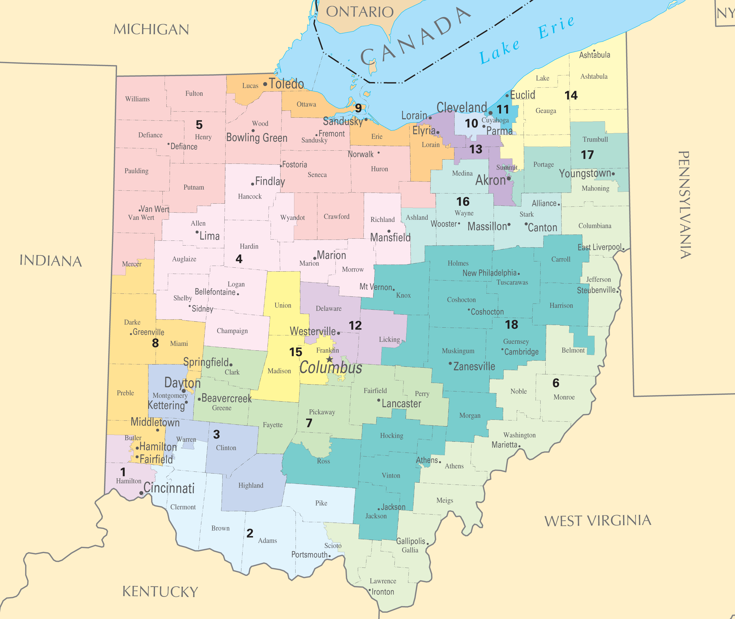 Ohio districts map